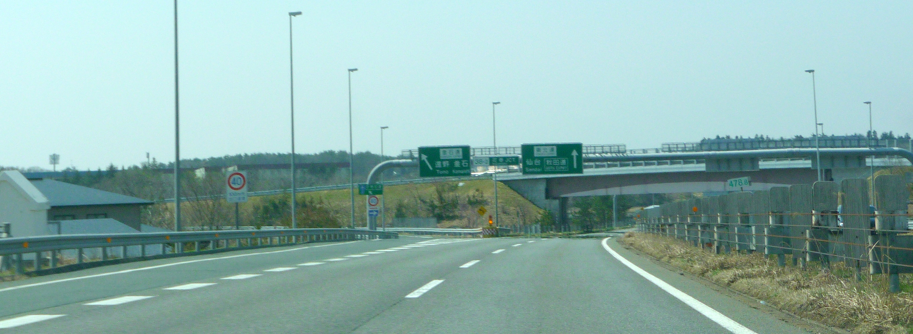 Tohoku Expressway Hanamaki Junction